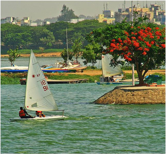 Sailing festival celebrated at Hussain sagar, Hyderabad India.